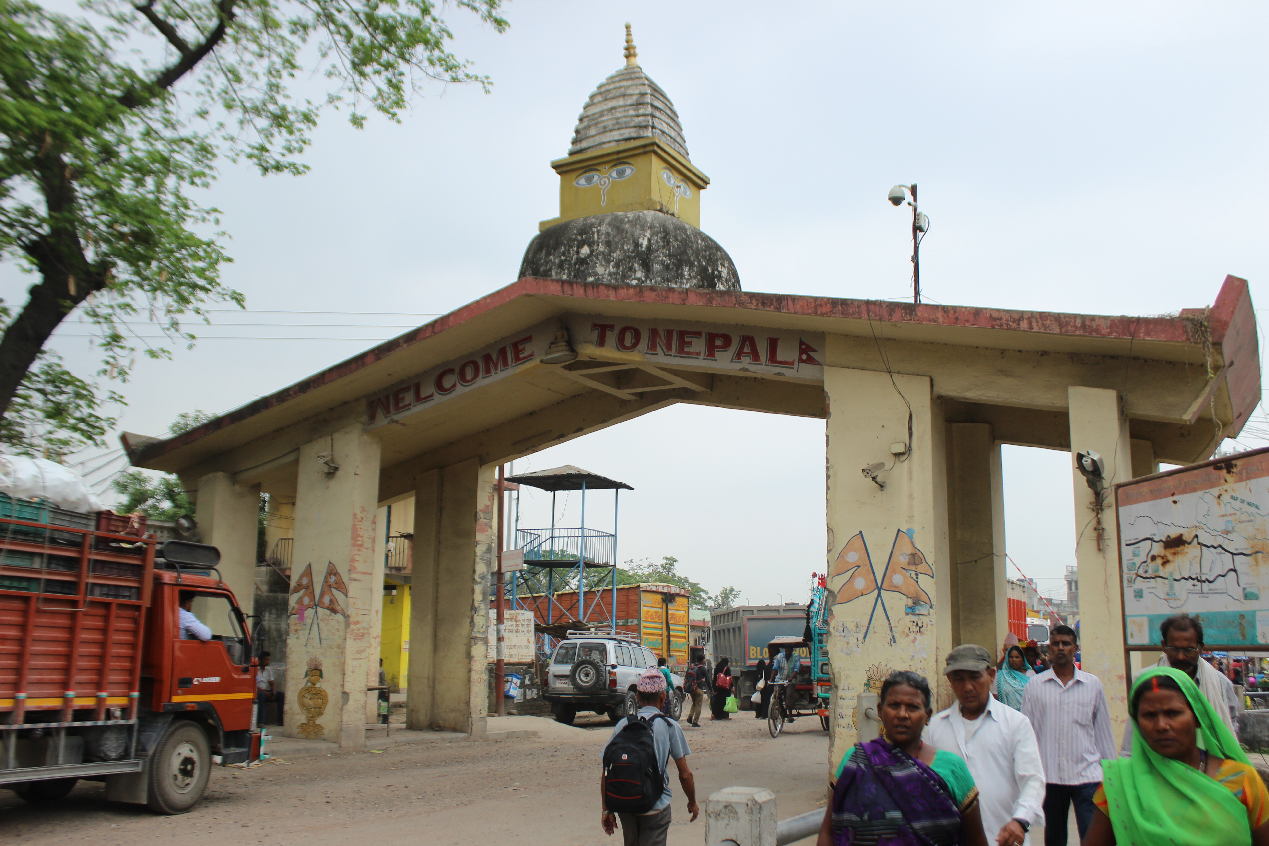 Inadia Nepal Border Gate at Sunauli